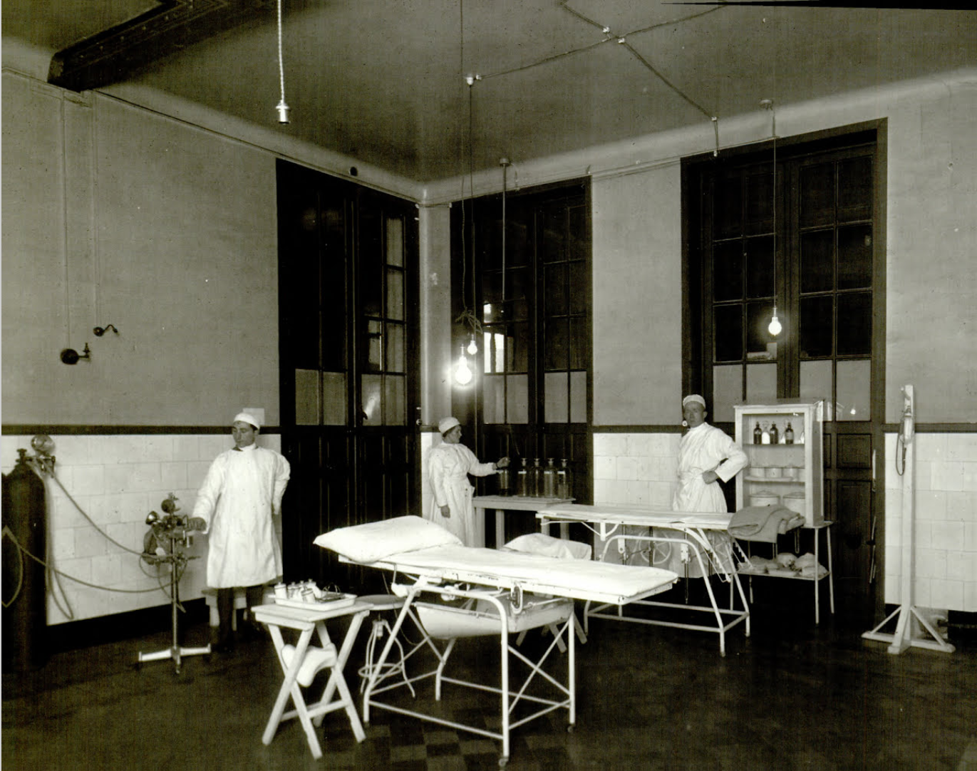 Operating room. Private Nicholas Romeo, Alice Cahn, and Sergeant H.T. Aardweg, all listed on the Signal Corps caption as surgical assistants. U.S. Military Hospital No. 57 Medical Corps, Paris